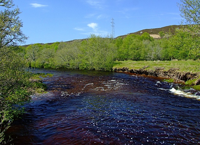 Strath Carnaig River Looking up river.